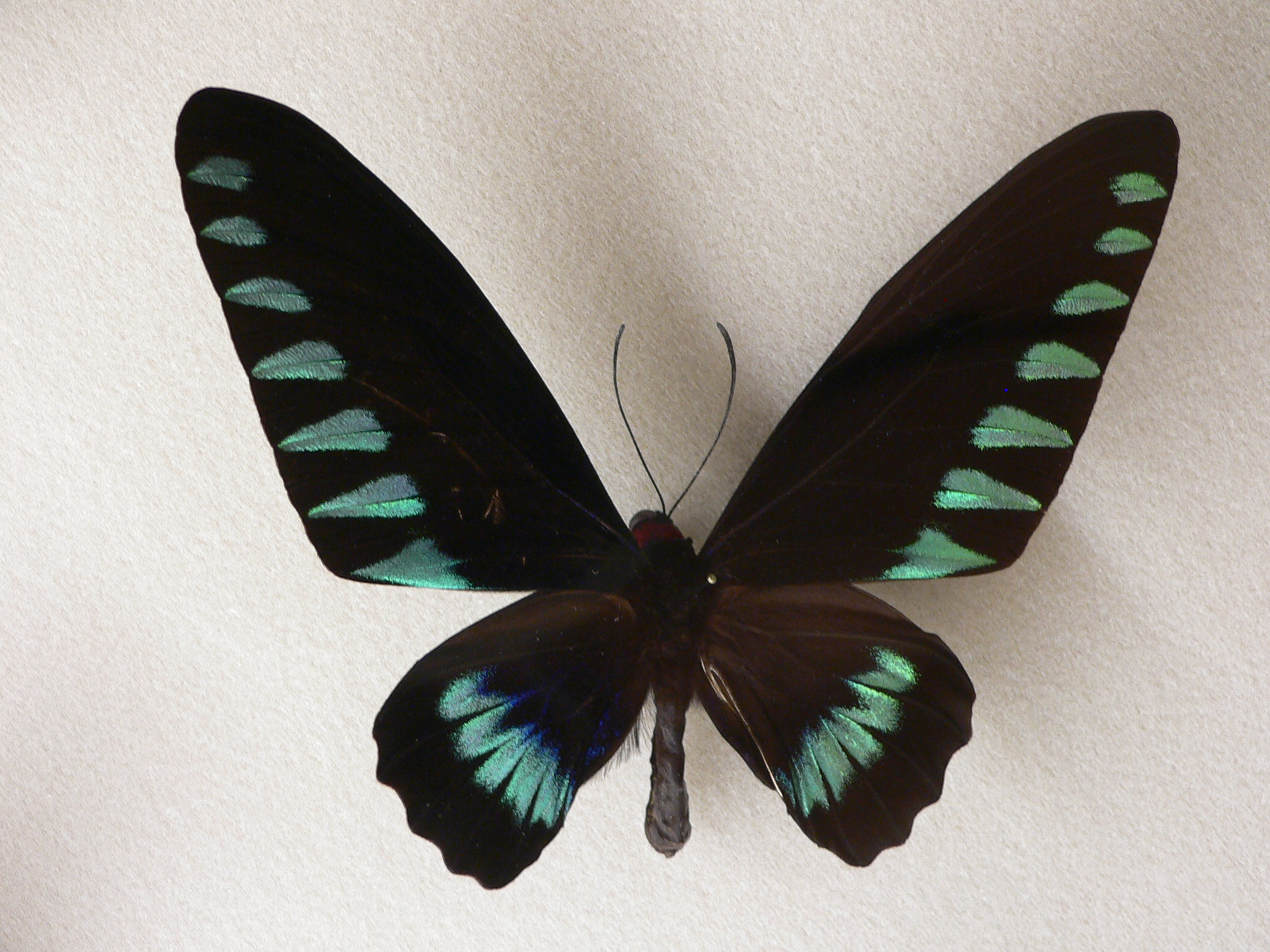 Pictures taken by myself at the Audubon Insectarium